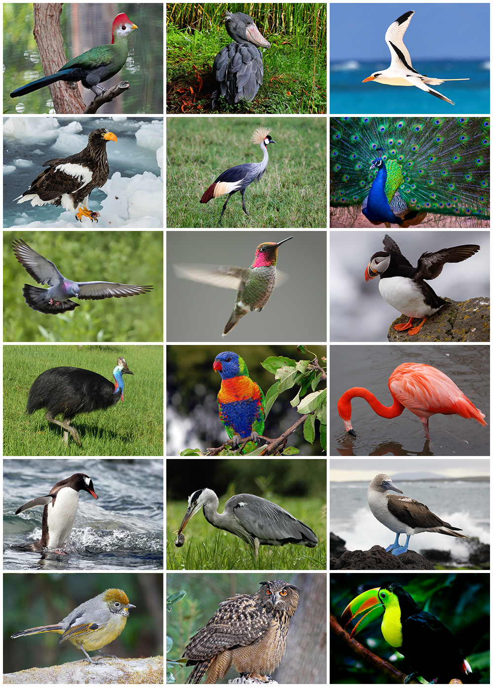 A composite image showing the diversity of birds; 17 biological orders are depicted in this image (from top, left to right):Musophagiformes, Pelecaniformes, Phaethontiformes, Accipitriformes, Gruiformes, Galliformes, Columbiformes, Apodiformes, Charadriiformes, Casuariiformes, Psittaciformes, Phoenicopteriformes, Sphenisciformes, Pelecaniformes, Suliformes, Passeriformes, Strigiformes, Piciformes.